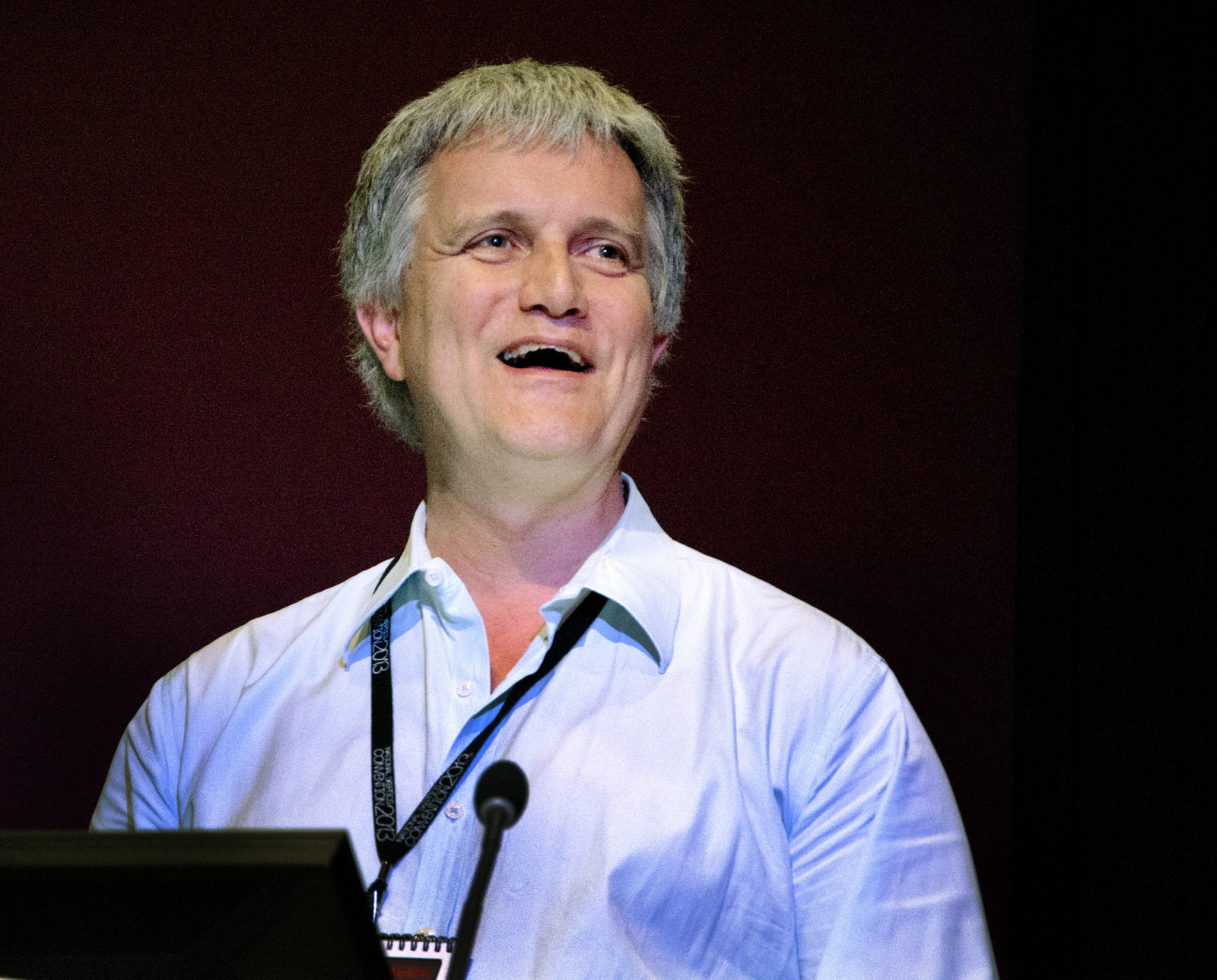 Paul Willis, speaking at the Australian Skeptics National Convention, Canberra 2013